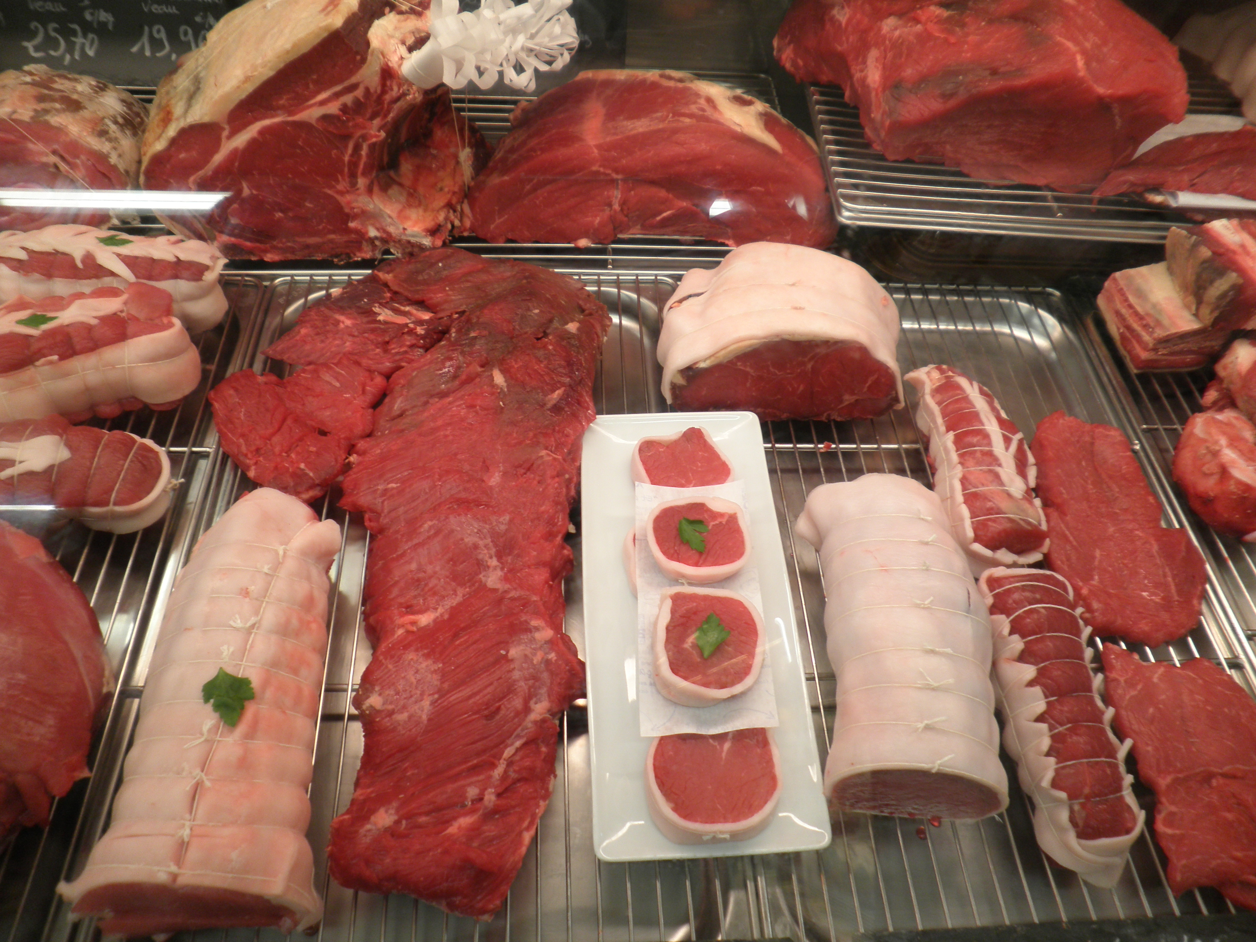 French meat. Biocoop, Biarritz.